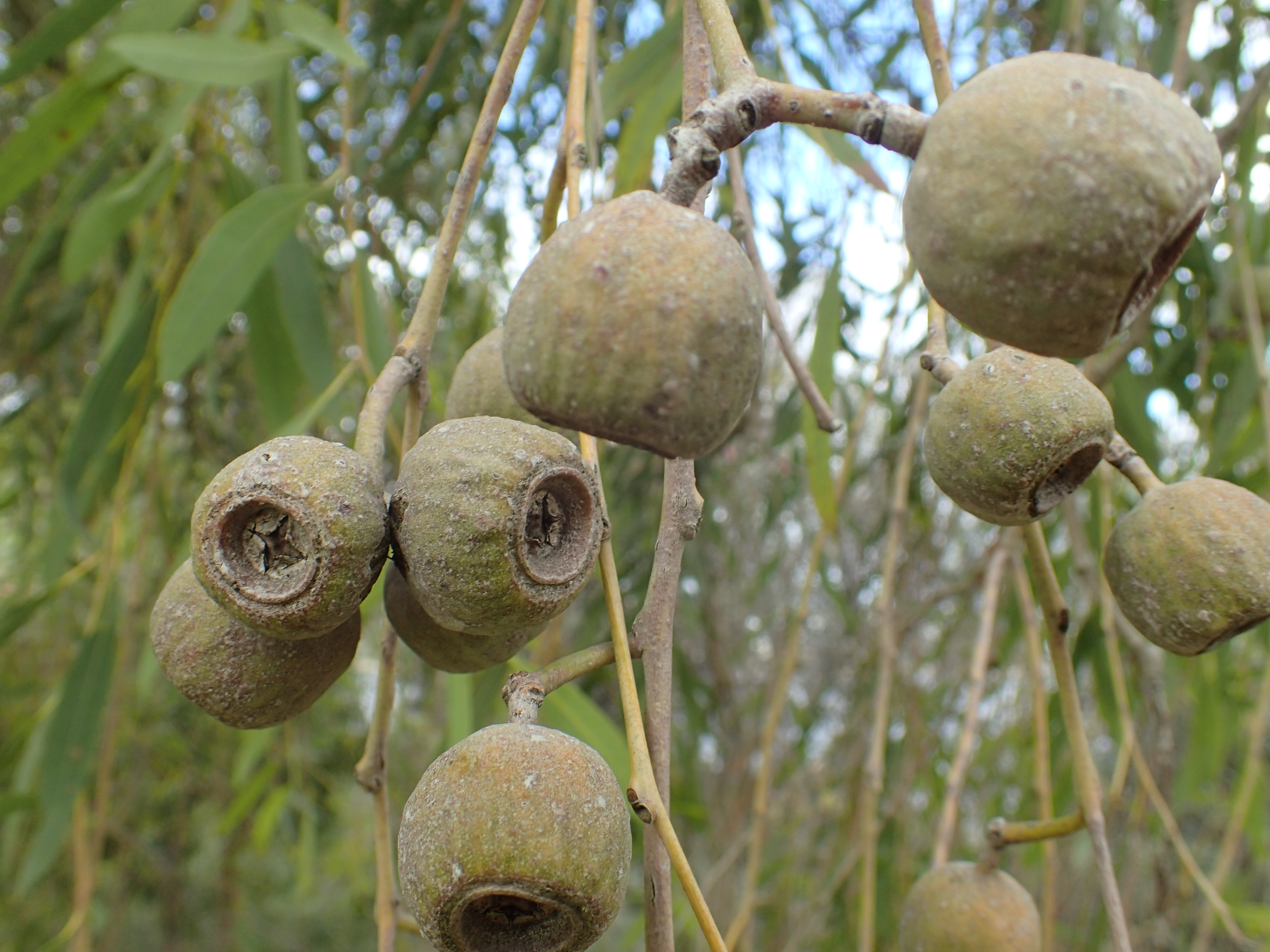 Fruit of Eucalyptus todtiana in Kings Park, Perth